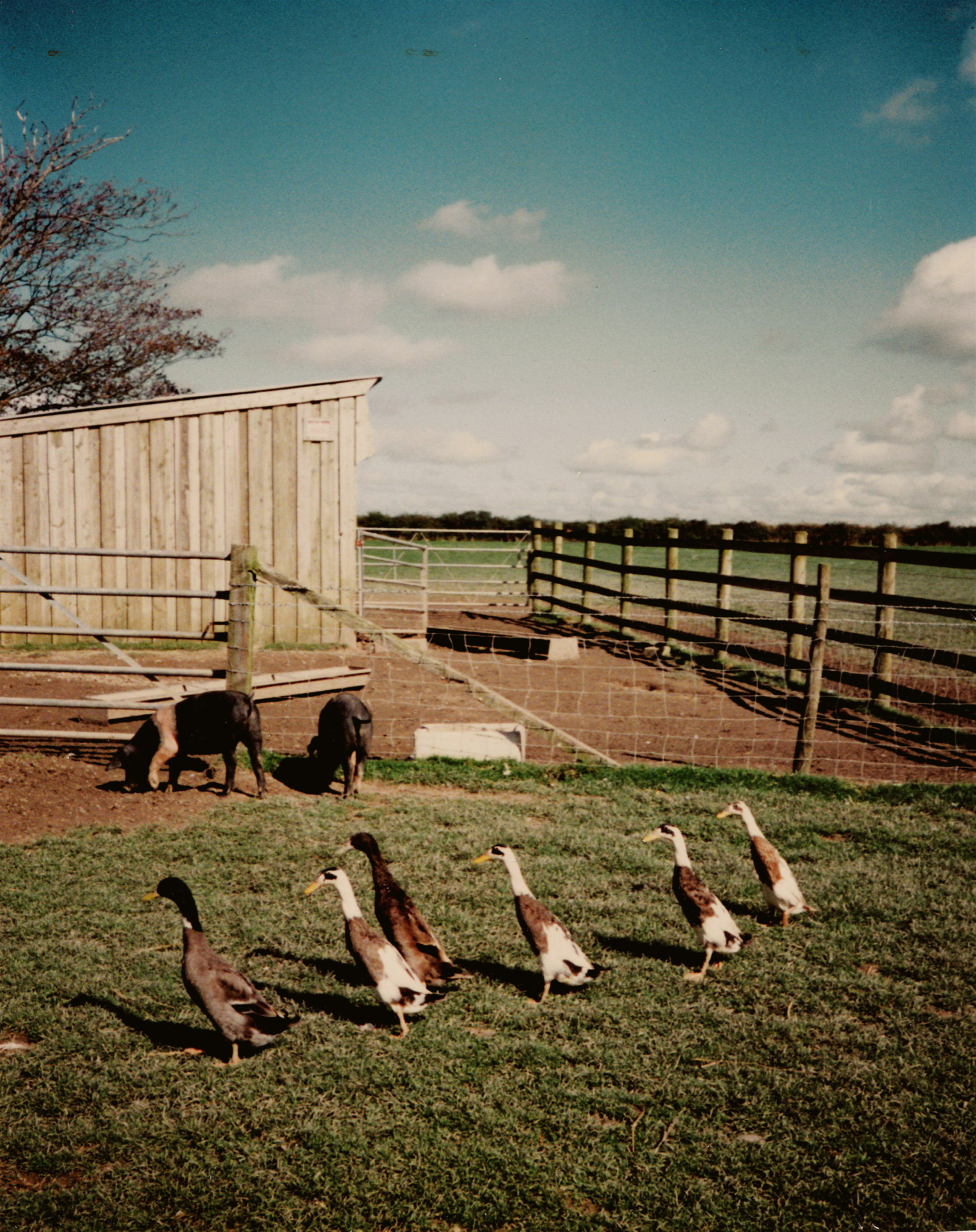 Ducks with pigs